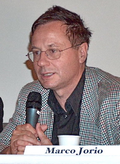 Marco Jorio, editor of the Historical Dictionary of Switzerland, during Wikipedia Day in Bern, 2007.